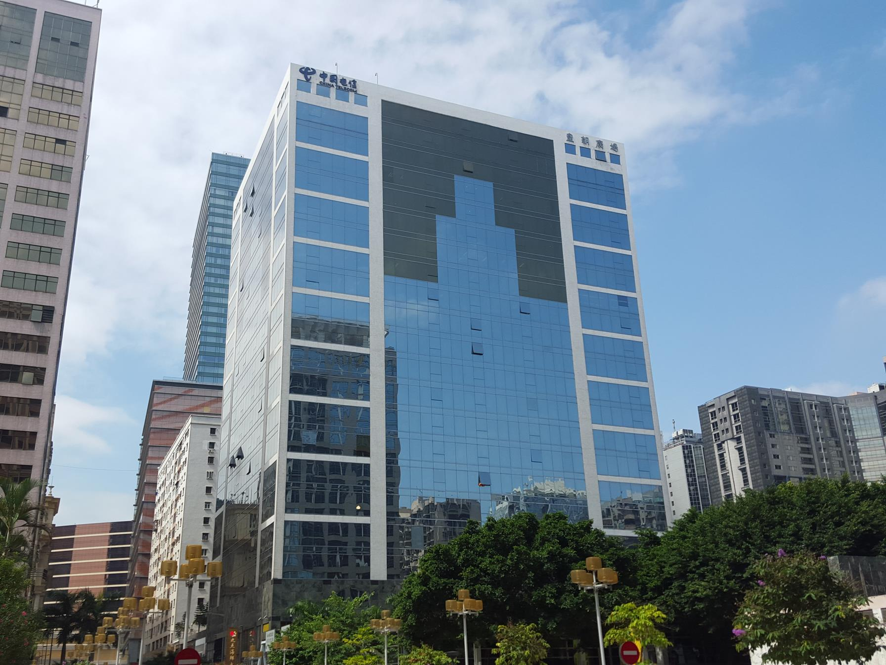 Dynasty Plaza, Macau